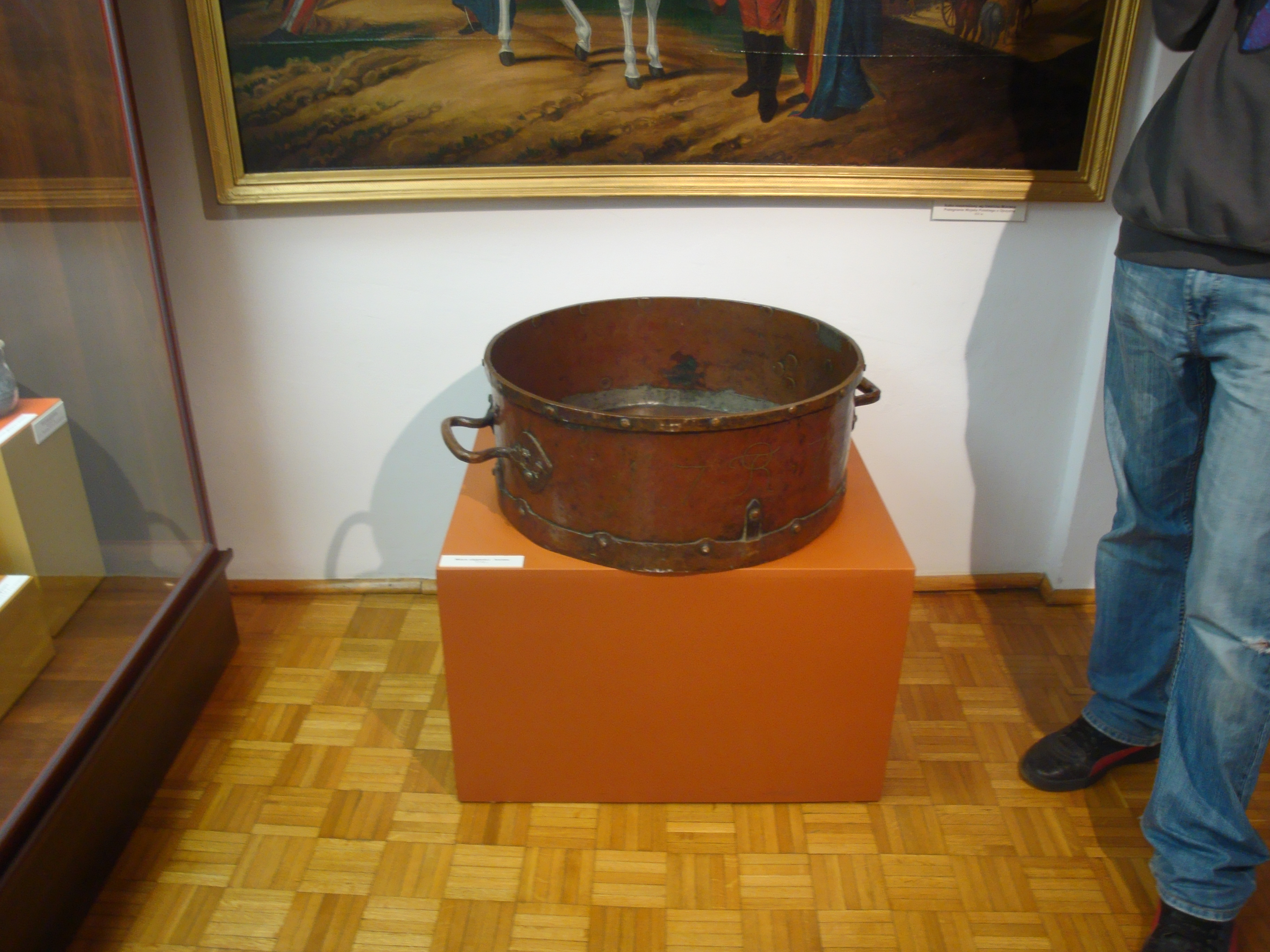 Korzec - measure vessel for grain etc. Made in 1772. Exhibit in Father Dr. Władysław Łęga Museum in Grudziądz, Poland